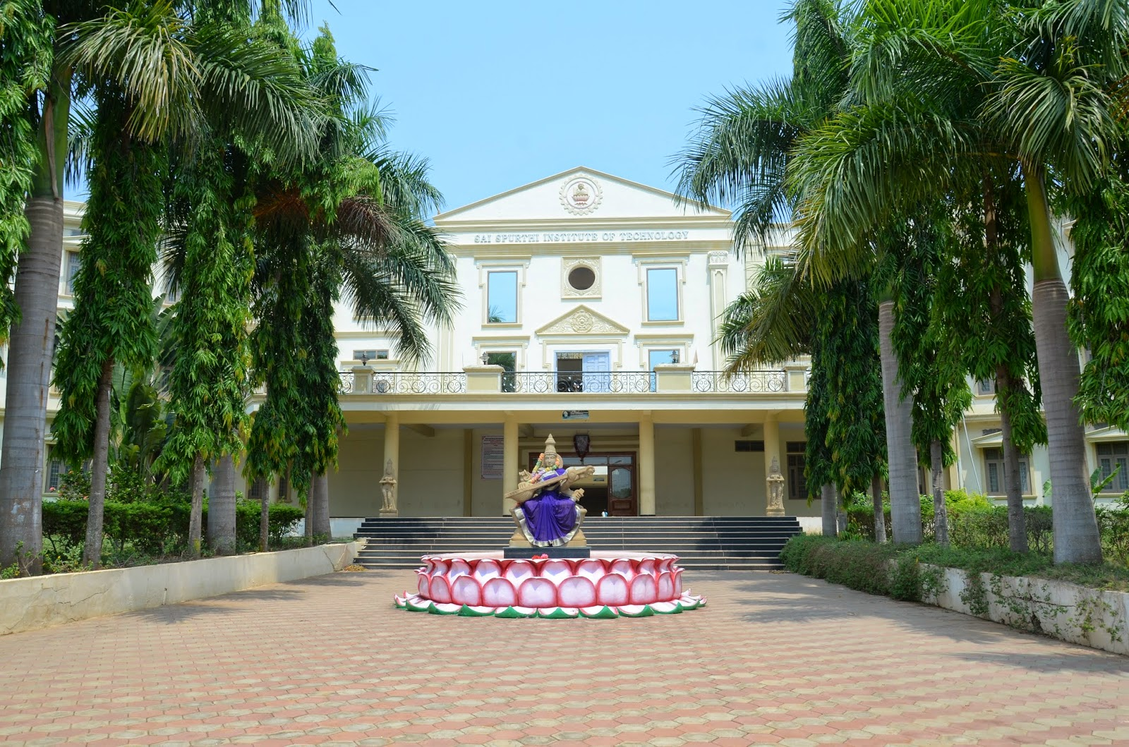 sai spurthi entrance